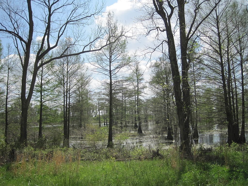 Wapanocca National Wildlife Refuge in Turrell, Crittenden County, Arkansas.